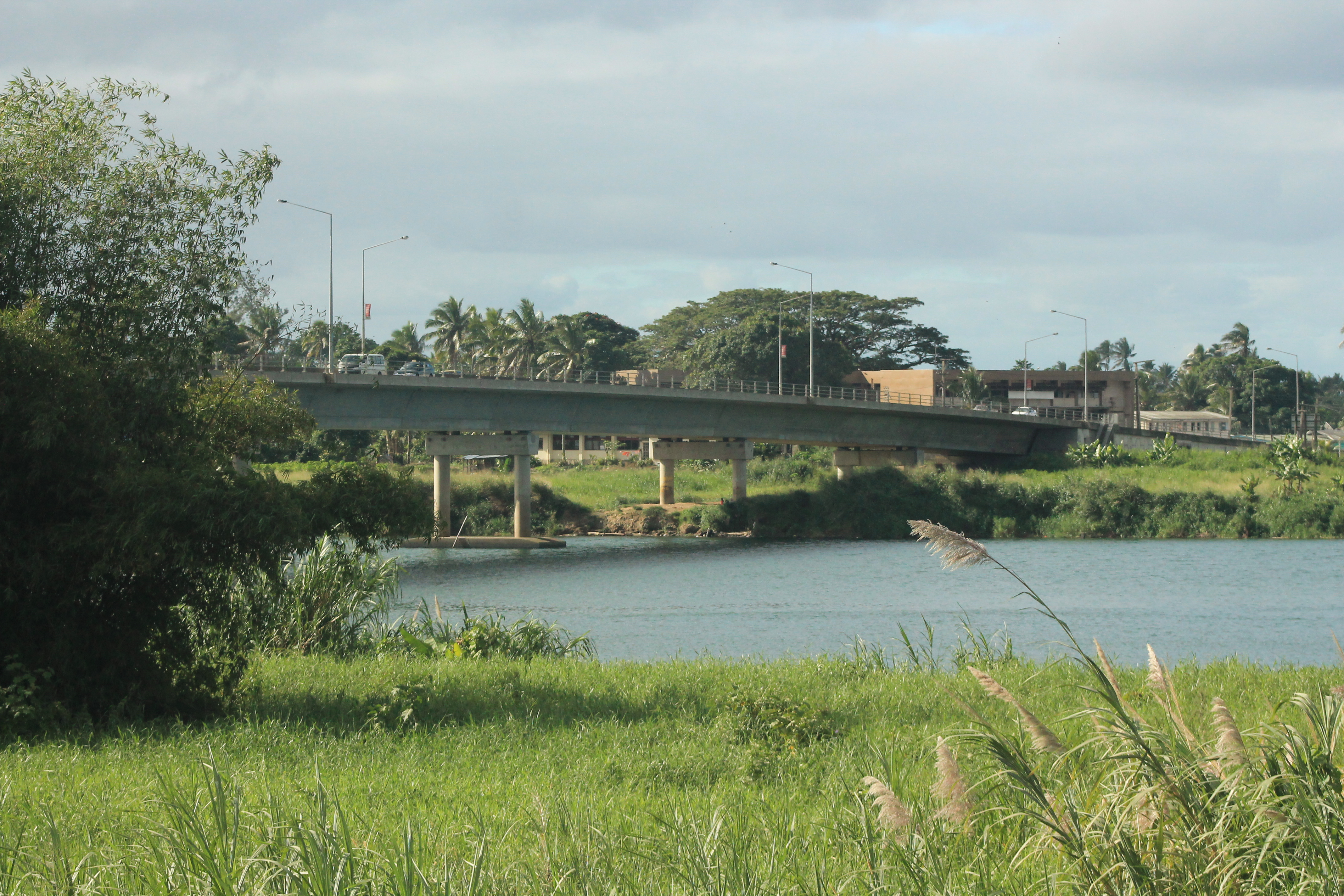 Rewa Bridge, Nausori, Fiji